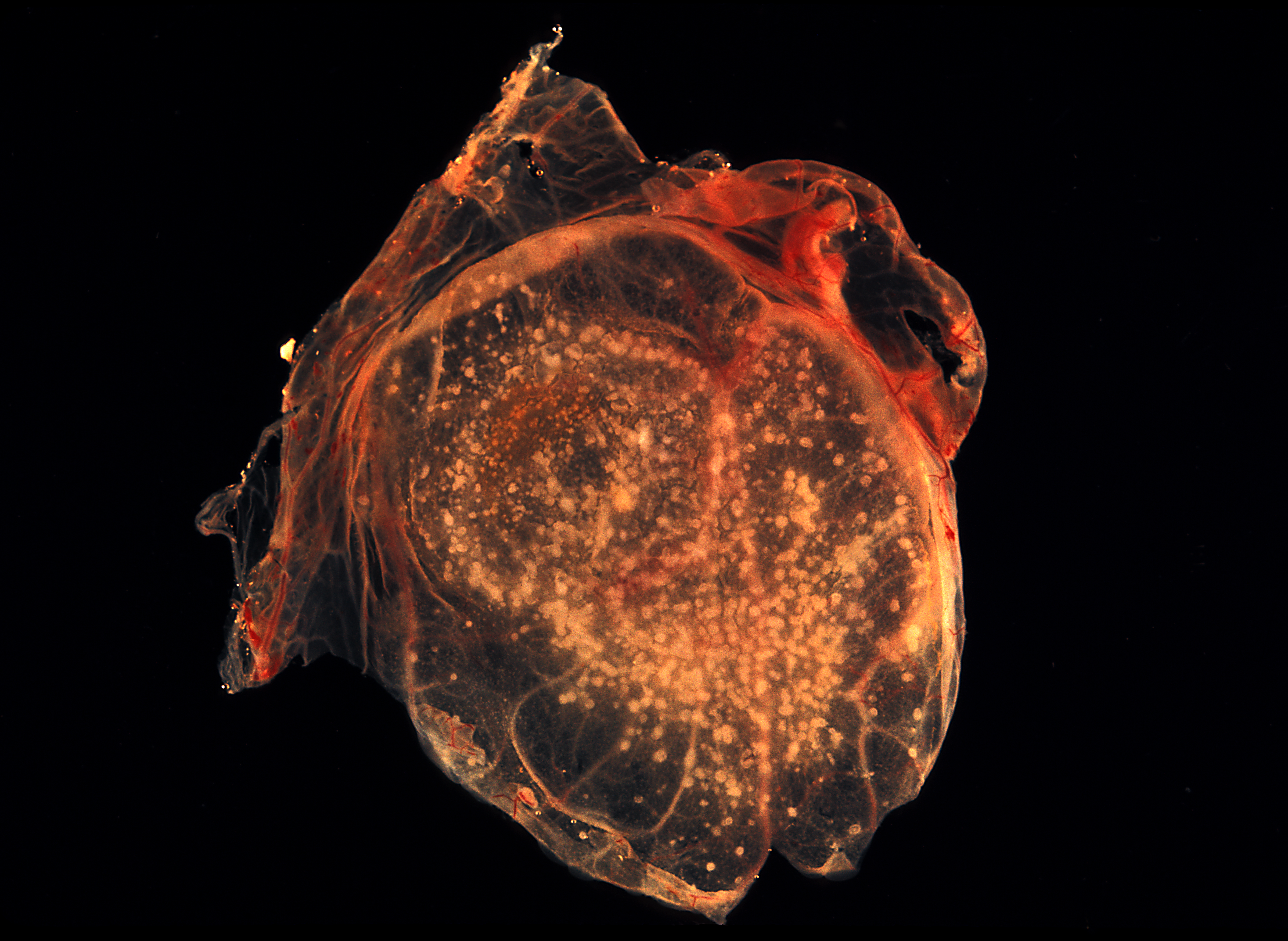 A photograph revealing smallpox virus pocks on the chorioallantoic membrane of a developing embryonic chick. Poxviruses are very easy to isolate, and will grow in a variety of cell cultures, producing characteristic hemorrhagic pocks on the chick chorioallantoic membrane (CAM).